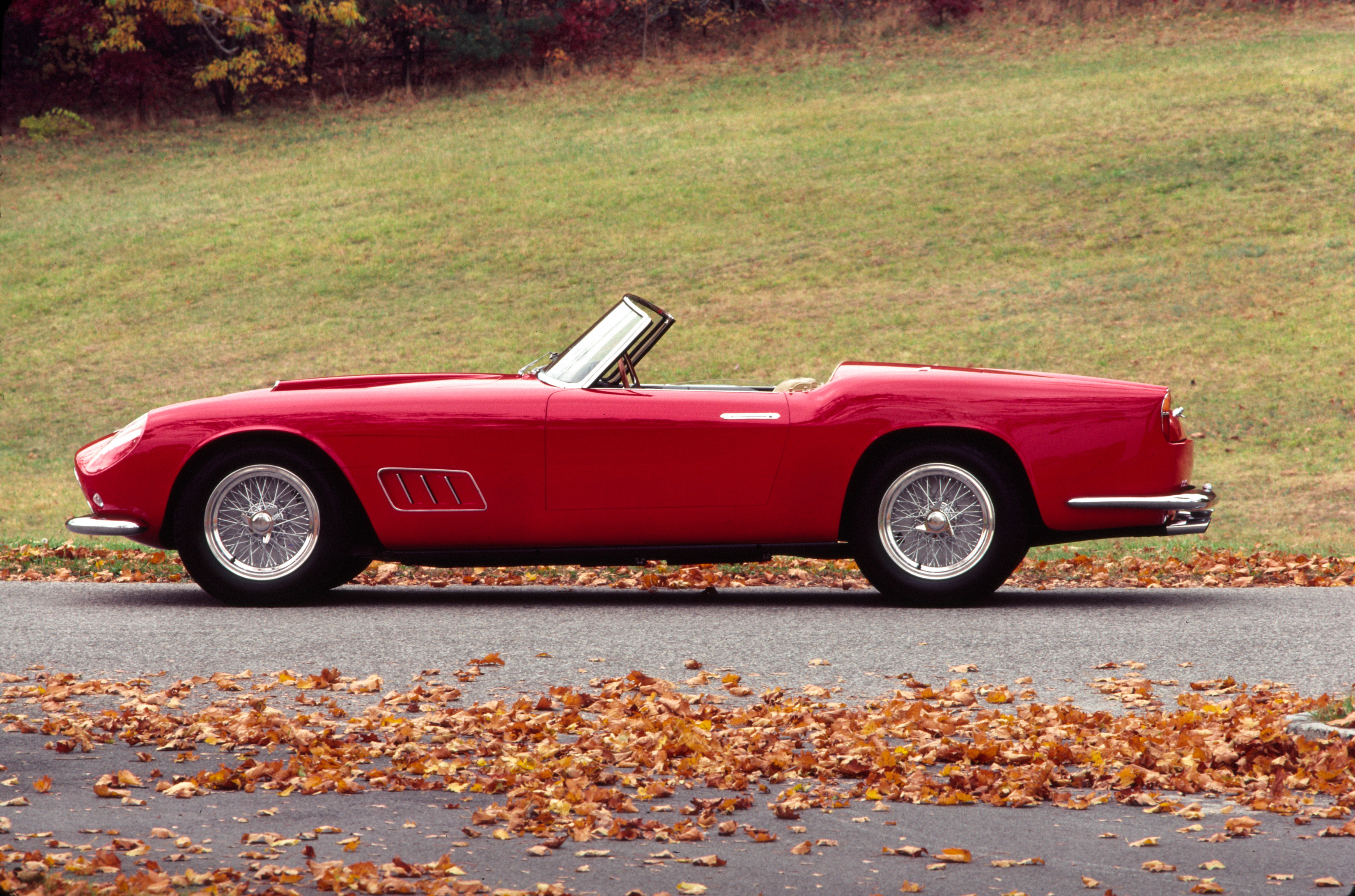 1959 Ferrari 250 LWB California Spyder. That this is 1379GT is mentioned on a sales page at Berlinetta Motors